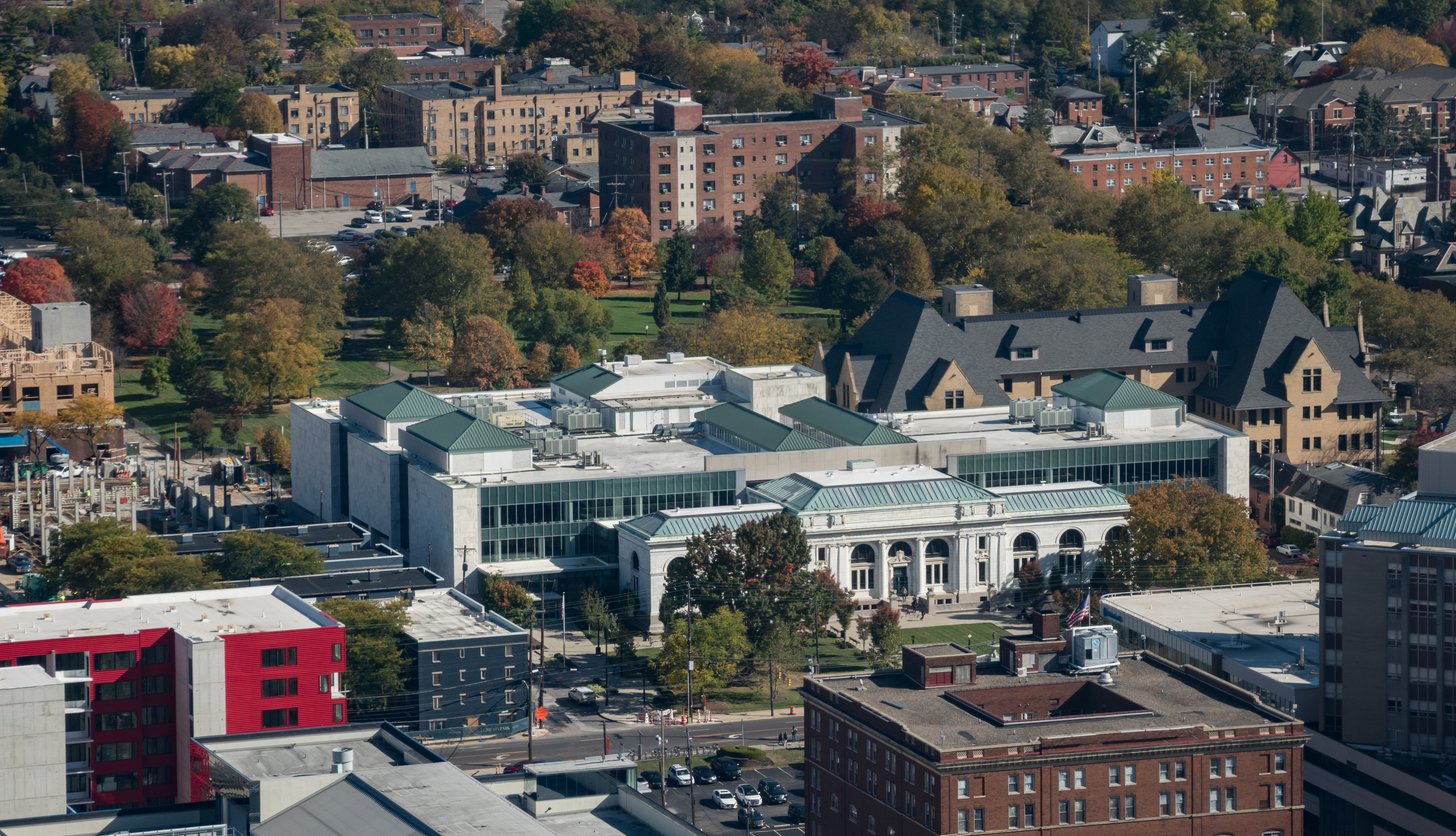 The CML Main Library, taken from the Rhodes State Office Tower.